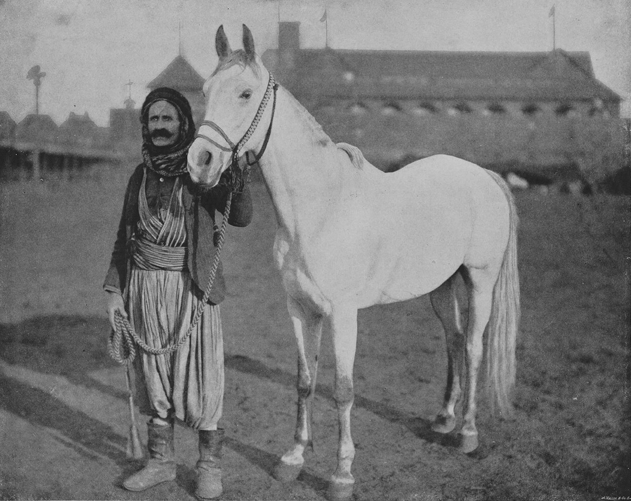 Syrian man with an Arabian horse, at the World's Columbian Exposition, 1893. THE BEDOUIN'S PRIZE STEED - It was stated that when the Bedouins reached New York City, they were offered $6,000 for the horse which is portrayed in the engraving, and as this was probably one of the finest of the historic Arabian animals, the reader may study the picture with profit and authority. The central plateau of Arabia is Njed, surrounded by deserts, but by no means a forbidding region for shepherds. The Nejdee horse, it is claimed, is indigenous to the Arabian peninsula. While there are swifter and larger horses, it is probable that they all owe some of their racing points to the Nejdee; and in the matters of domesticity, fidelity, beauty, and endurance, it is still claimed for these animals that they are without equals on the entire face of the earth. History shows that since the Fifth Century the Nejd possessed these same high-bred horses in numbers the same as at present. But they are not plenty, even now. The shepherd rides a camel among his flocks and the merchant in his caravans. It is only for war or for state occasions that the beautiful horse is caparisoned. The chief owns all the horses he can, and mounts his retainers on them. As business is often war in the shepherd-lands, there remains considerable use for the horse. The conditions of ownership have kept the breed of Arabian horses pure, but it averred that, though they have not degenerated, they have not gained in development for fourteen hundred years.